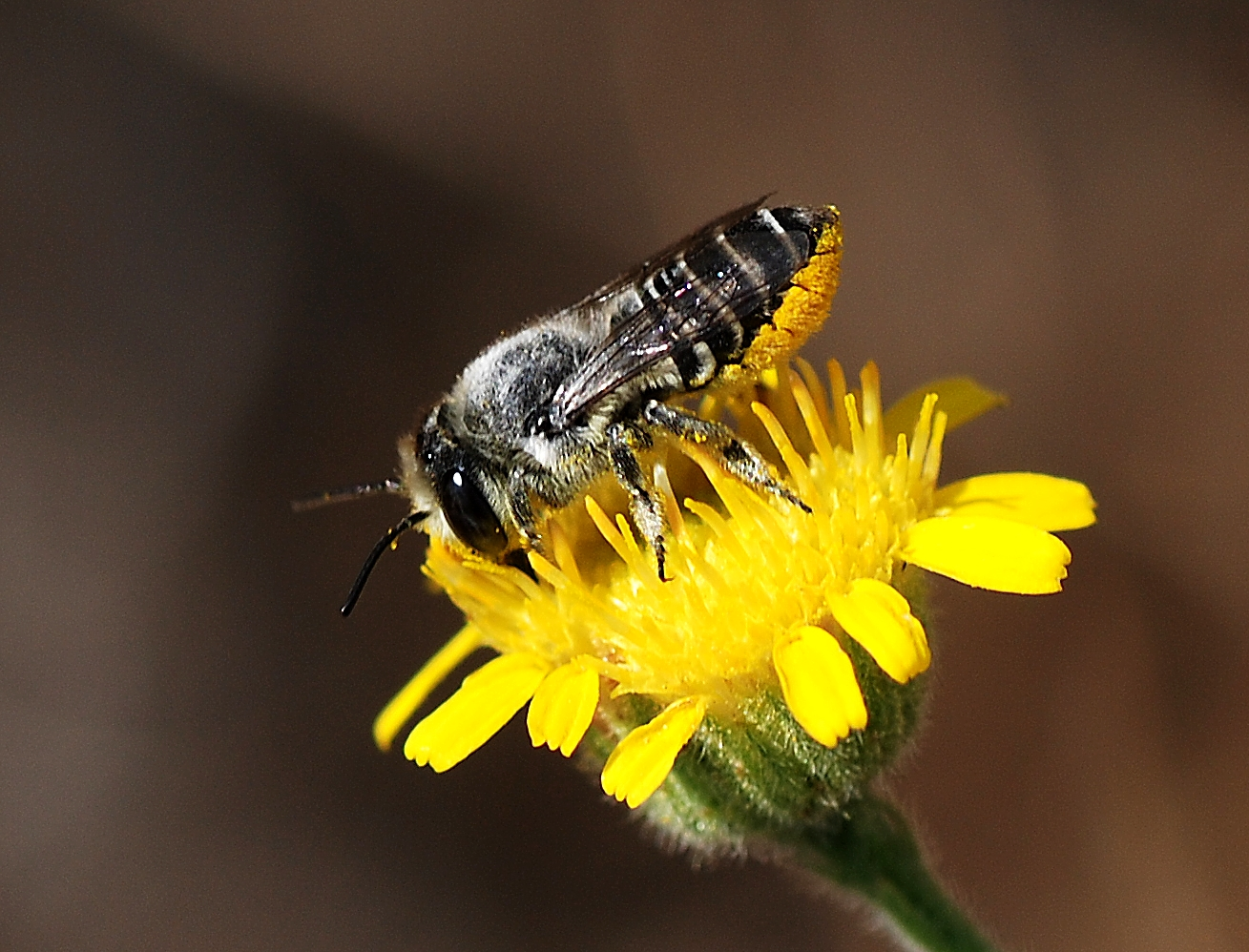 Bee of Megachile sp. (Megachilidae)